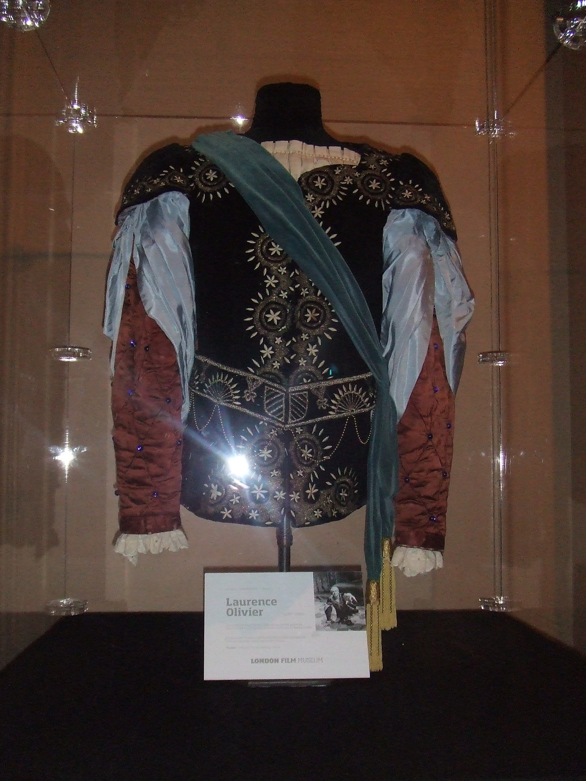 Costume worn by Laurence Kerr Olivier in the film Hamlet (1948) displayed at the London Film Museum. “Hamlet Costume Laurence Kerr Olivier was born in Dorking, Surrey and become one of the greatest and most admired actors of his generation. The costume here was worn by Olivier in his production of Hamlet in 1948. Although running times, it still went on to receive the Best Picture Academy Award that year. Olivier also received the Best Actor Academy Award for his portrayal of the title role, the first actor to receive the honour whilst directing himself. ”